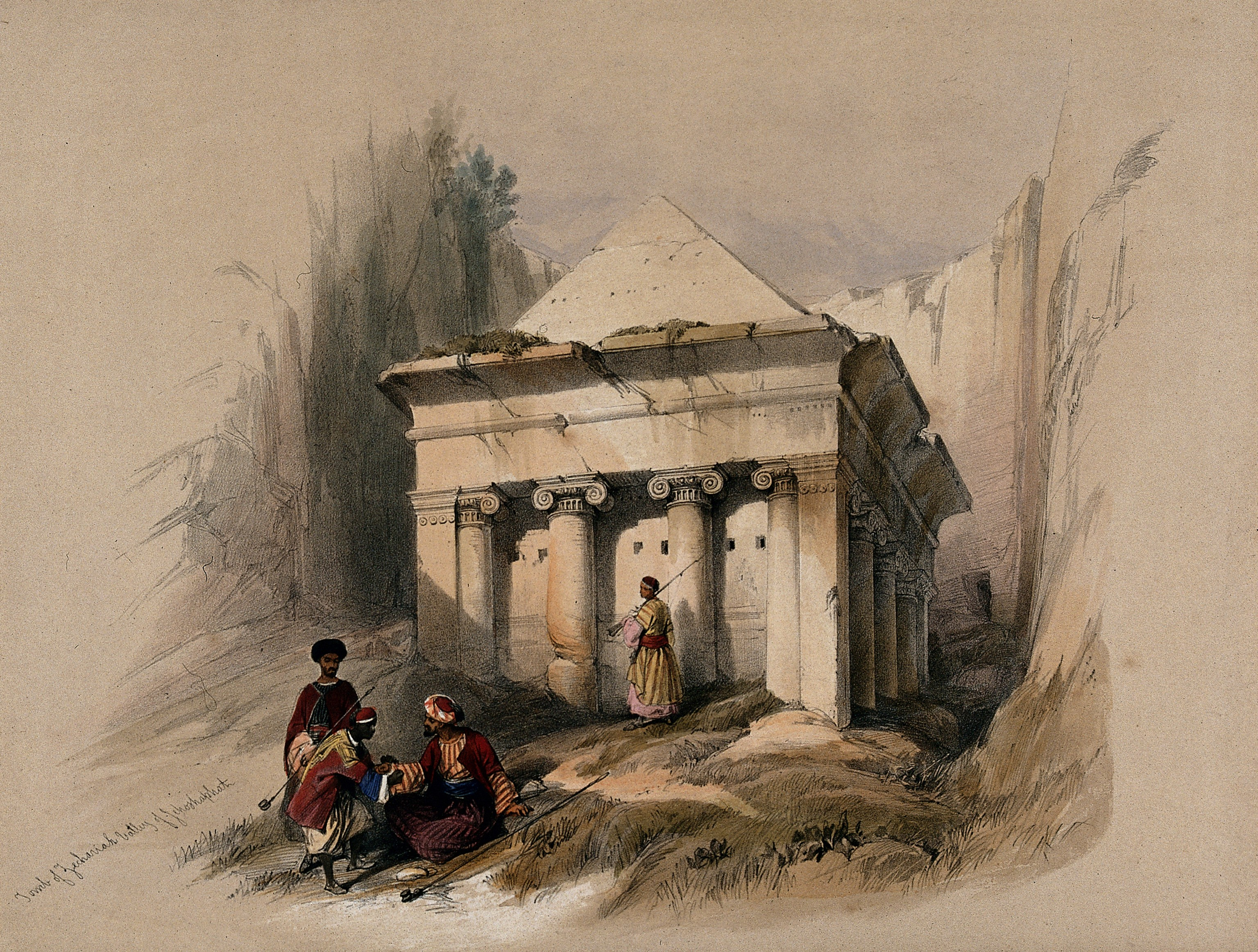 The tomb of Zechariah in the valley of Jehoshaphat, East Jerusalem. Coloured lithograph by Louis Haghe after David Roberts, 1842. Iconographic Collections Keywords: David Roberts; Louis Haghe